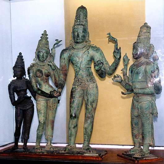 Bronzes of the Chola period / Tamil Nadu, seen here from left, unknown goddess, Parvati, Shiva and Vishnu.